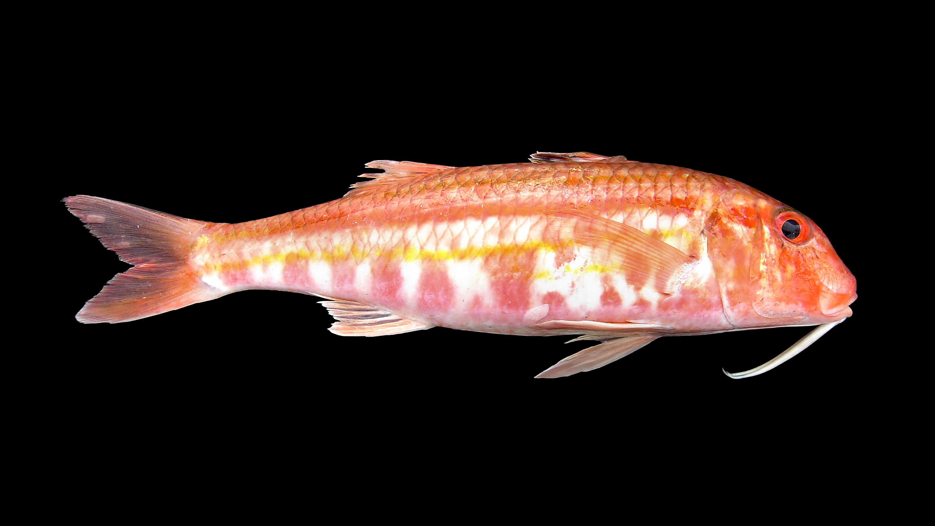 Red mullet from the Southern North Sea.Image taken in the fishlab on board the A962 Belgica.